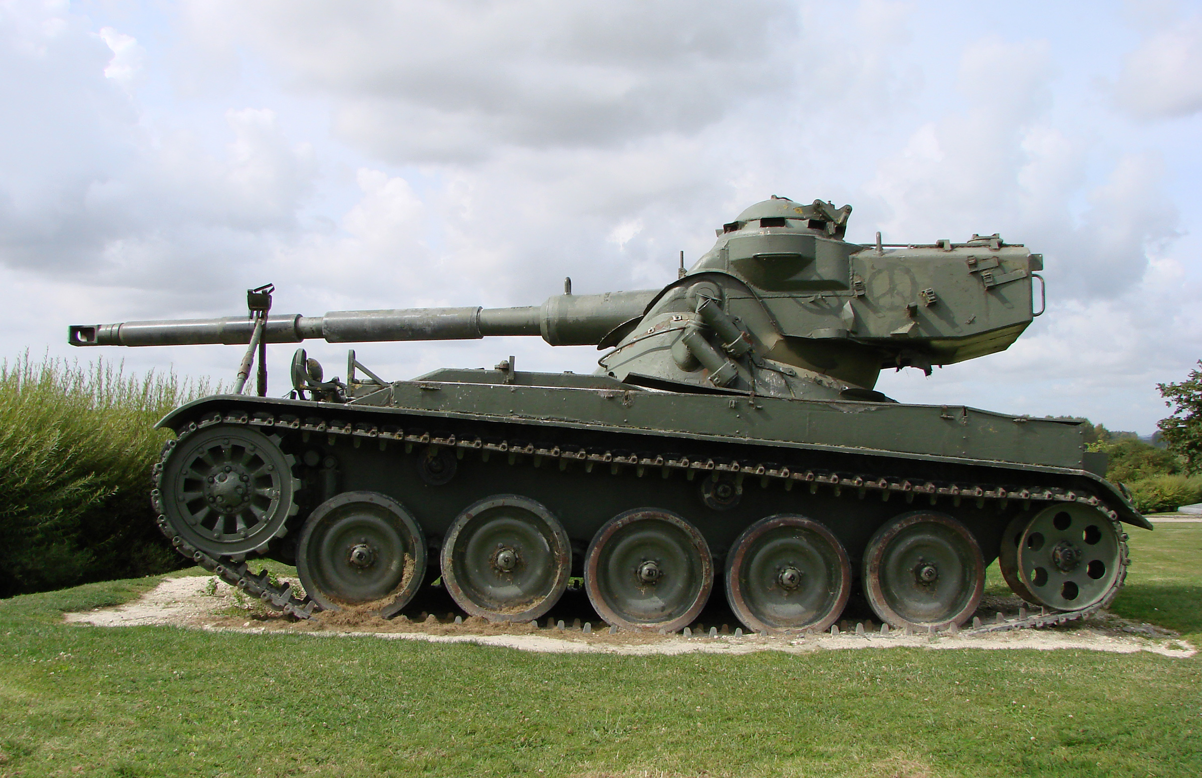 AMX-13.